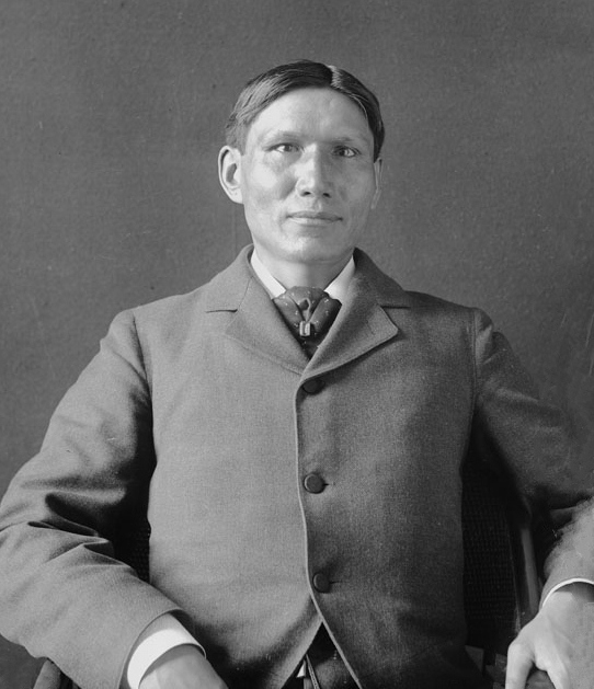 Portrait (Front) of Ohiyesa (The Winner), or Dr Charles Alex Eastman, Brother of Reverend John Eastman APR 1897